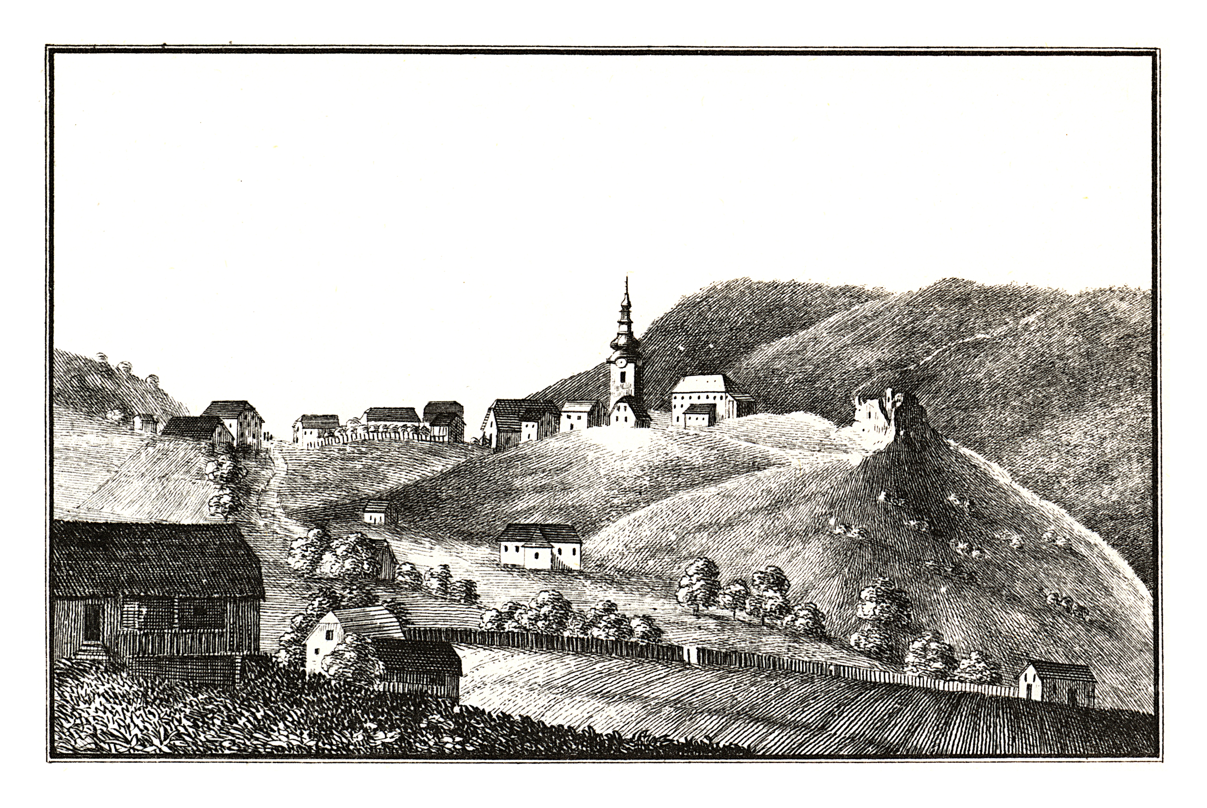 J. F. Kaiser - lithographirte Ansichten der Steyermärkischen Städte, Märkte und Schlösser, Graz 1824-1833 Joseph Franz Kaiser (1786–1859) Alternative names J. F. KaiserDescriptionAustrian printer and editorDate of birth/death 11 March 1786 19 September 1859Location of birth/death Graz (Styria) GrazAuthority control : Q1499963 VIAF: 30629353 ISNI: 0000 0000 3083 0153 LCCN: n87141671 GND: 129880159 NLP: A24960305 WorldCat creator QS:P170,Q1499963 . Scanprojekt Community Projektbudget 2012 This scan or this PDF-file was created within the GLAM-project Bookscanning, supported by Wikimedia Germany and Wikimedia Austria as a part of the community-project to capture books, documents and pictures which are not eligible to copyright or for which the copyright has expired. This document describes or depicts an object which is located in Austria today. Send requests for uncompressed scans to Hubertl. This work is in the public domain in its country of origin and other countries and areas where the copyright term is the author's life plus 100 years or fewer. You must also include a United States public domain tag to indicate why this work is in the public domain in the United States. This file has been identified as being free of known restrictions under copyright law, including all related and neighboring rights.